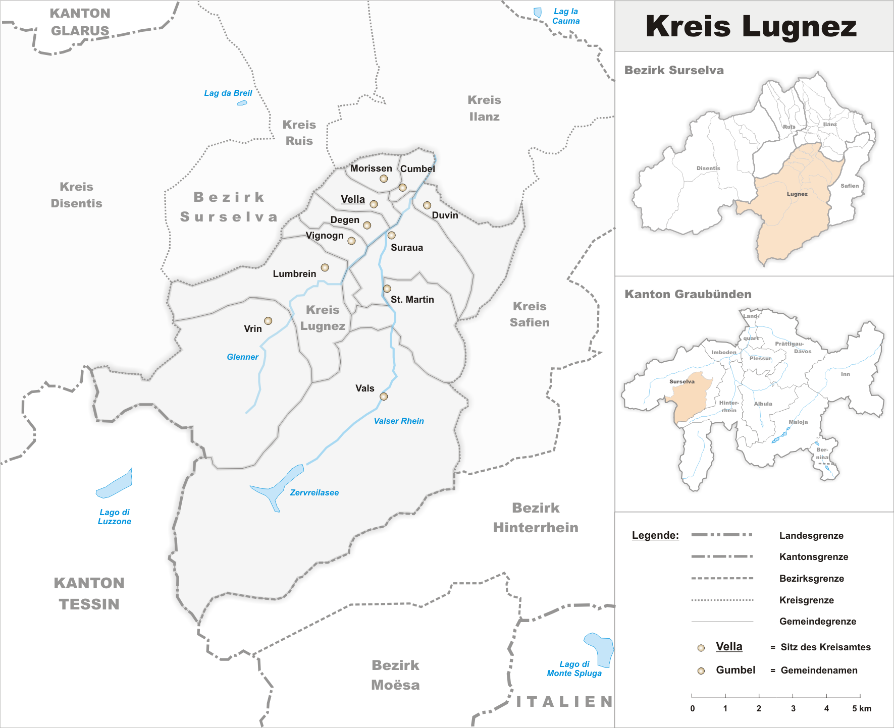 Municipalities in the circle of Lugnez